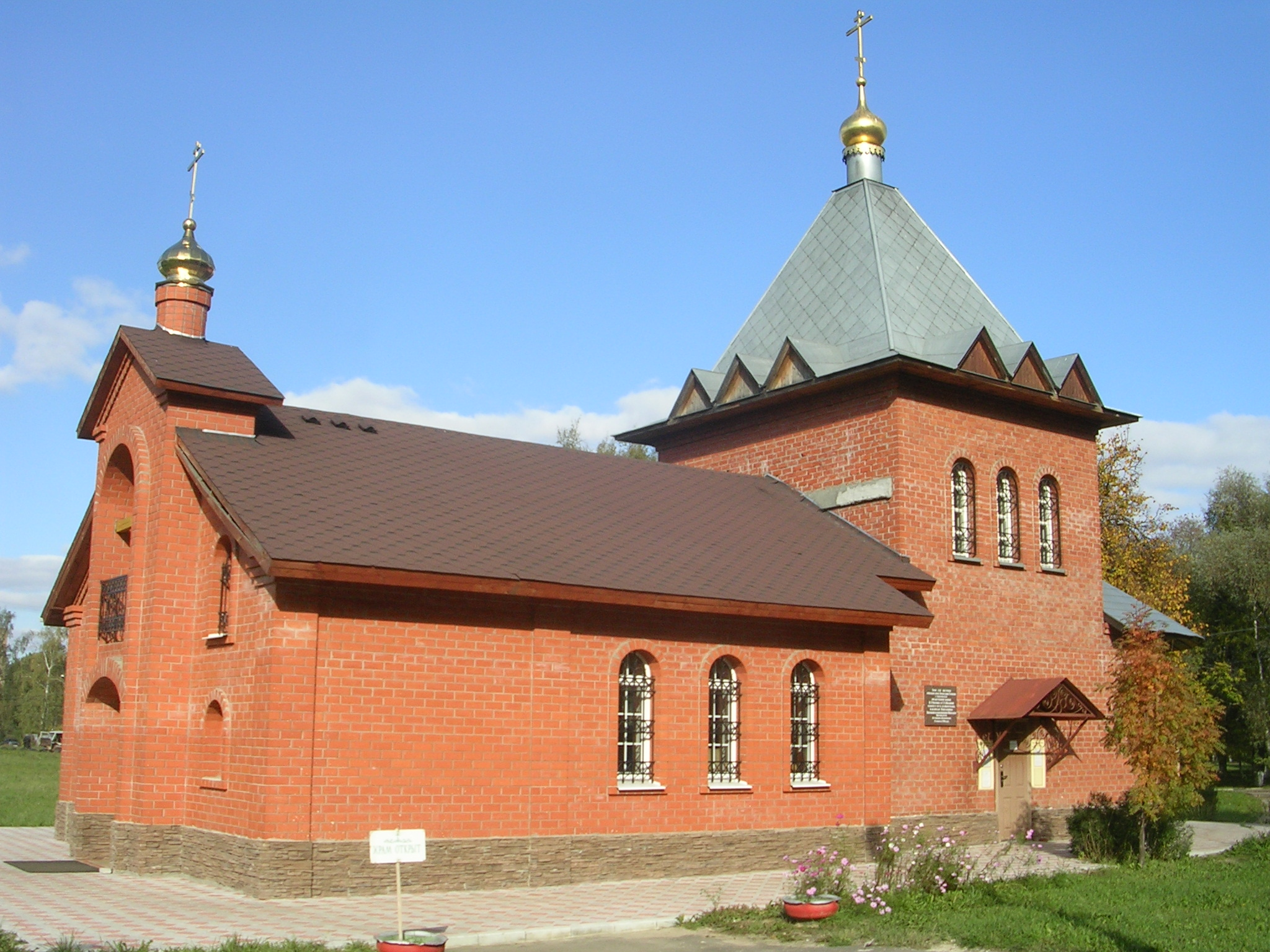 Saint Pantaleon Temple in Electrostal, Moscow region.